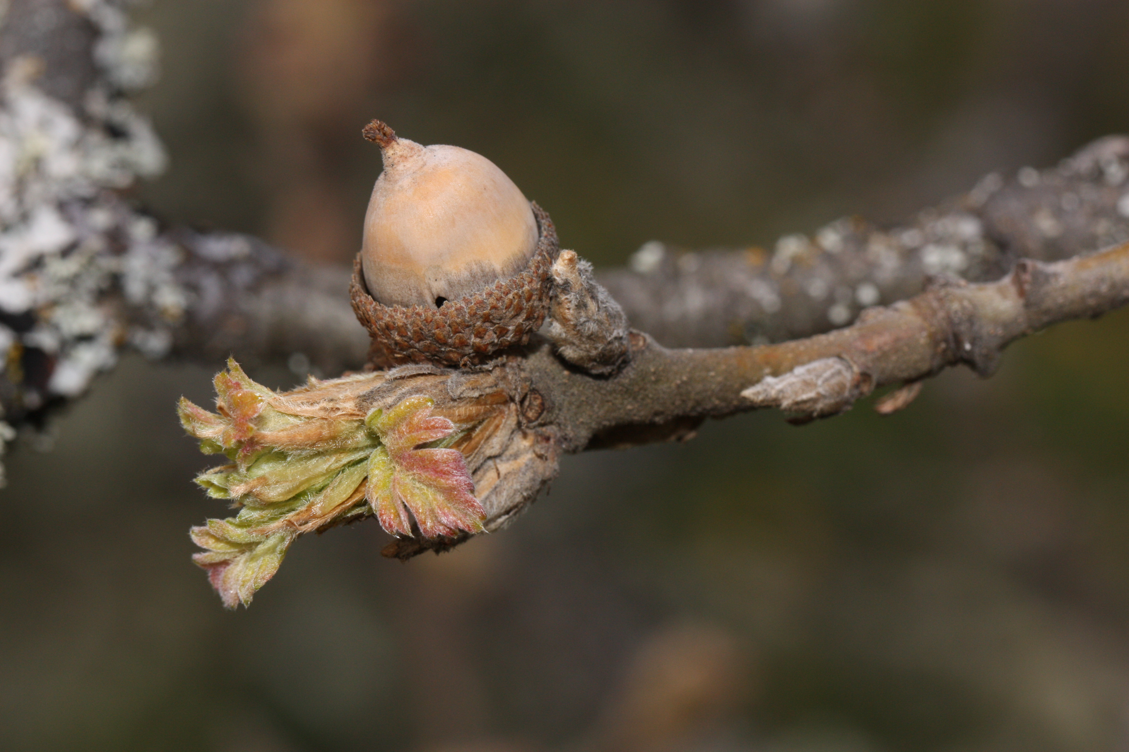 Oregon White Oak, Garry Oak Viewpoint location: McCall Point Trail, Tom McCall Preserve Viewpoint elevation: 264 meter (868 ft) Location source: Garmin GPSmap 60CSx Location Datum: WGS84